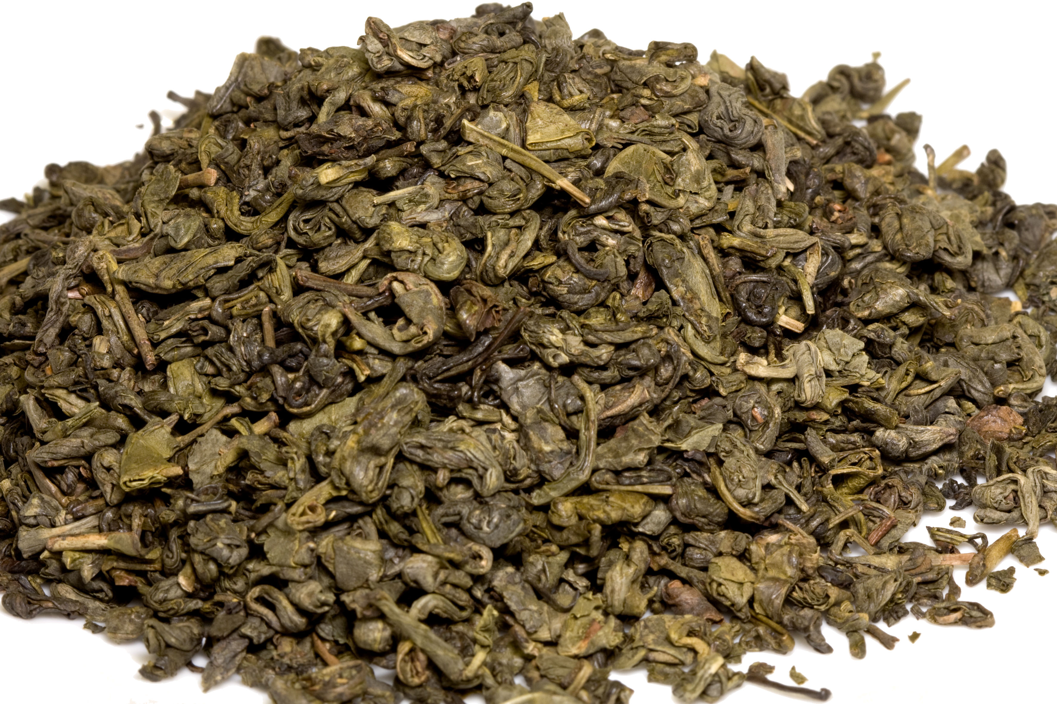 A small pile of Twinings gunpowder green tea.